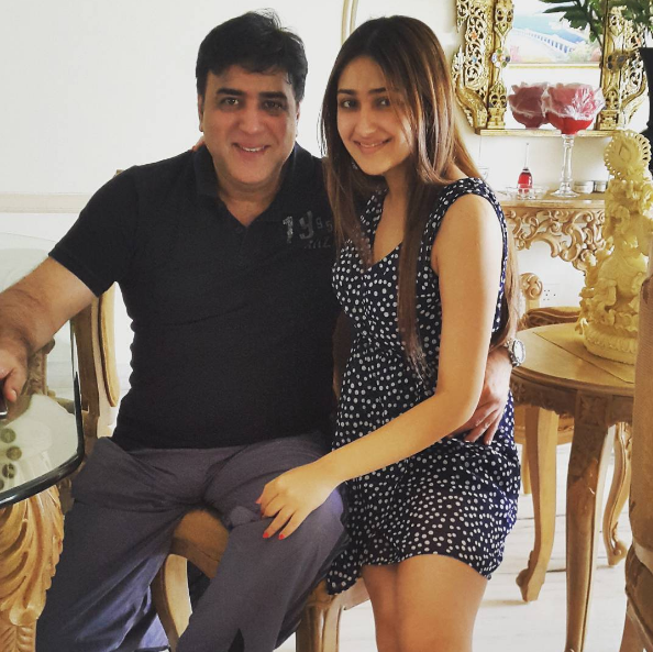 Saiyyeshaa with her dad Sumeet Saigal.